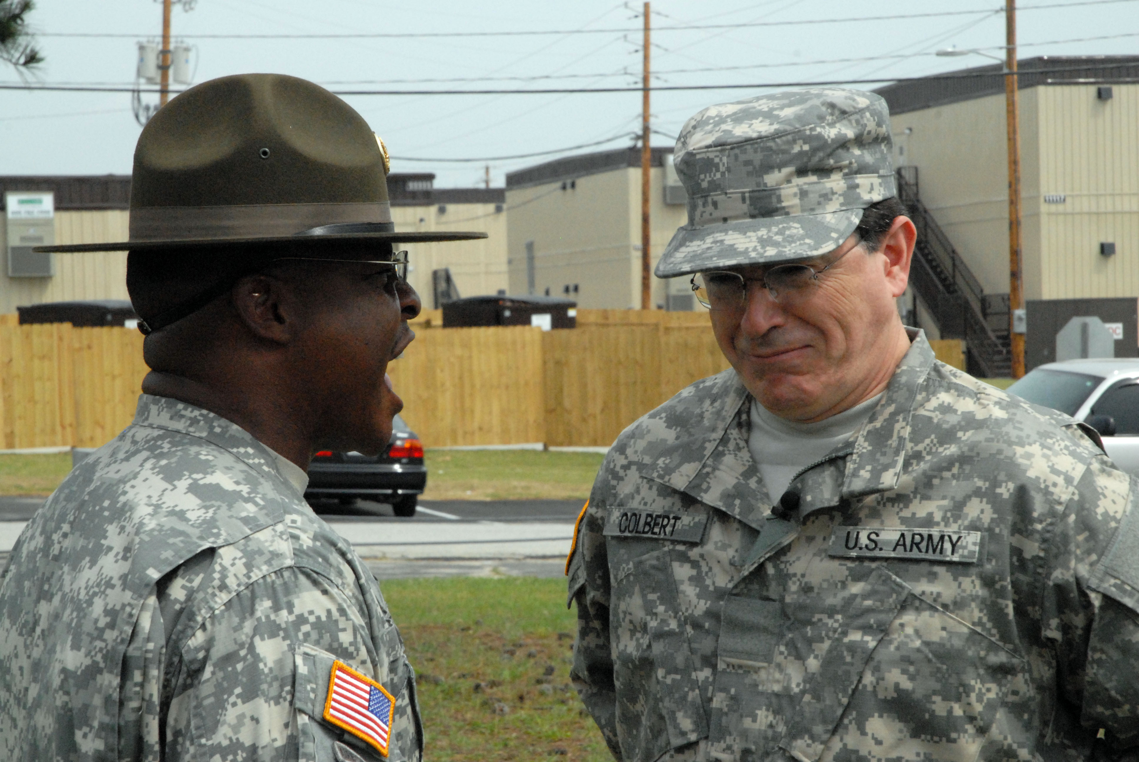 Drill sergeant, Sgt. 1st Class Demetrius Chantz, an instructor at the U.S. Army Drill Sergeant School, corrects Pvt. Stephen Colbert. See more at Army.mil Political humorist Colbert tackles Basic Combat Training